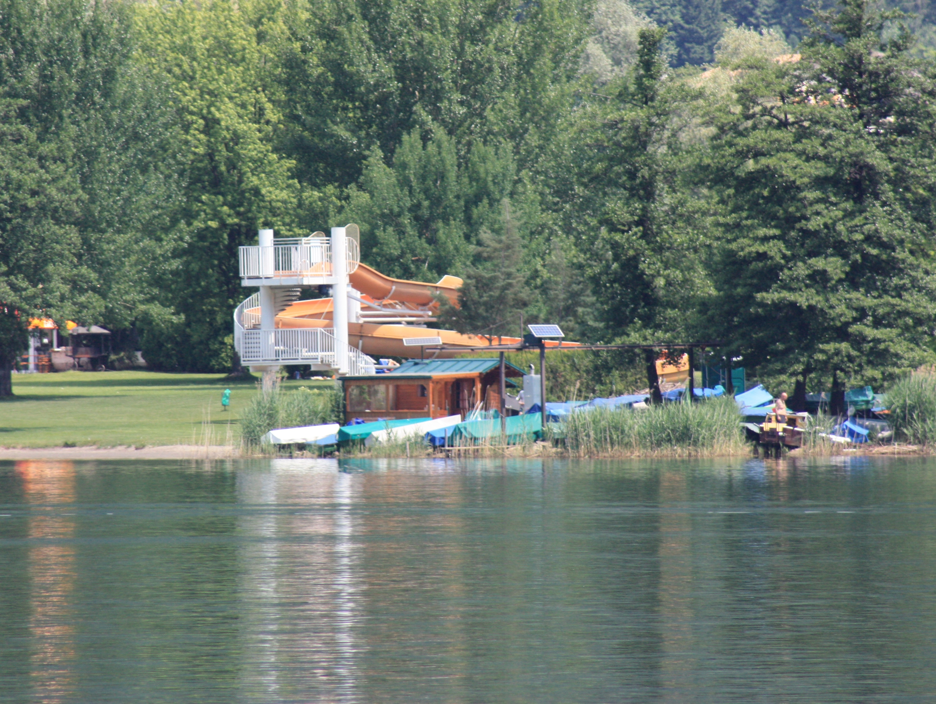 Lido Locality: Döbriach Community:Radenthein